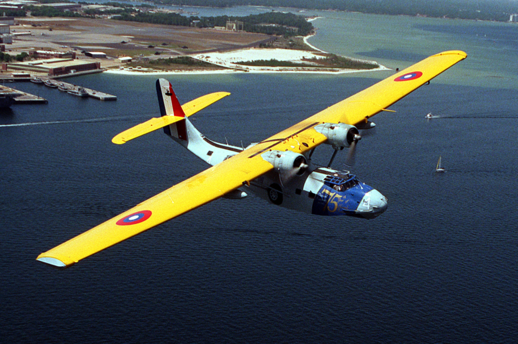 A restored Consolidated PBY-6A Catalina aircraft over U.S. Naval Air Station, Pensacola, during the celebration of the 75th anniversary of U.S. naval aviation. The aircraft is painted in the colours of the Curtiss NC-4 which flew across the Atlantic Ocean in 1919.